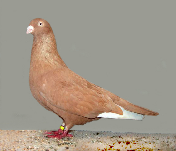 Memel Highflier (Yellow)